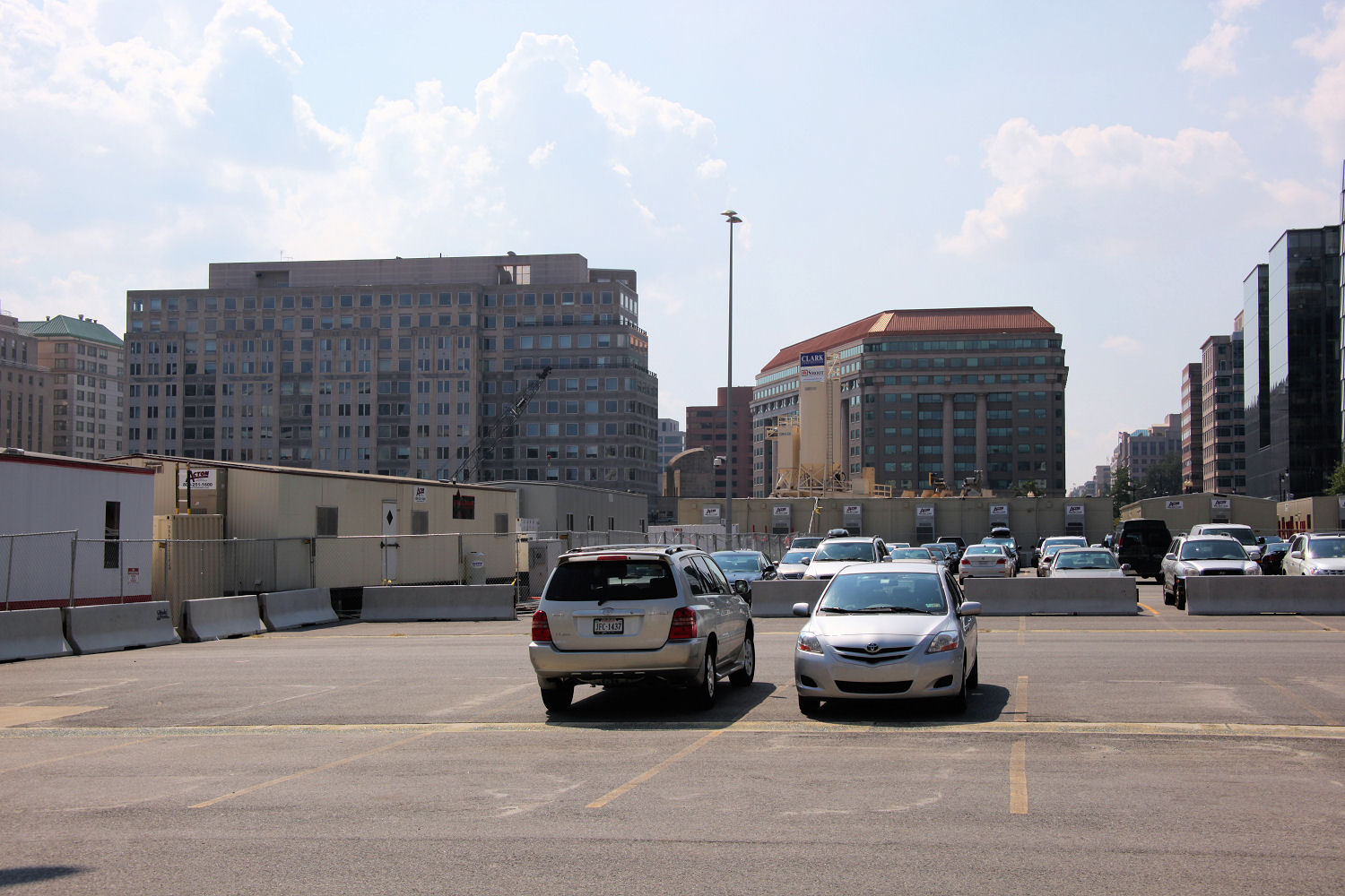 Looking west across the northeast parcel of the CityCenterDC redevelopment project in Washington, D.C., in the United States in August 2011. This portion of the project is owned by local developer Kingdon Gould III, and title to the lot was transferred to him on November 1, 2007, in exchange for a parcel of land he owned a few blocks to the north (on which the city intended lease to a developer for the construction of a large convention center hotel). Gould remained undecided about what to construct on his parcel, and it remained in use as a surface parking lot as of August 2011 even as construction on the rest of the project began.